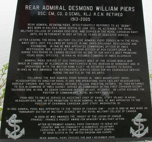 Debby Piers memorial plaque